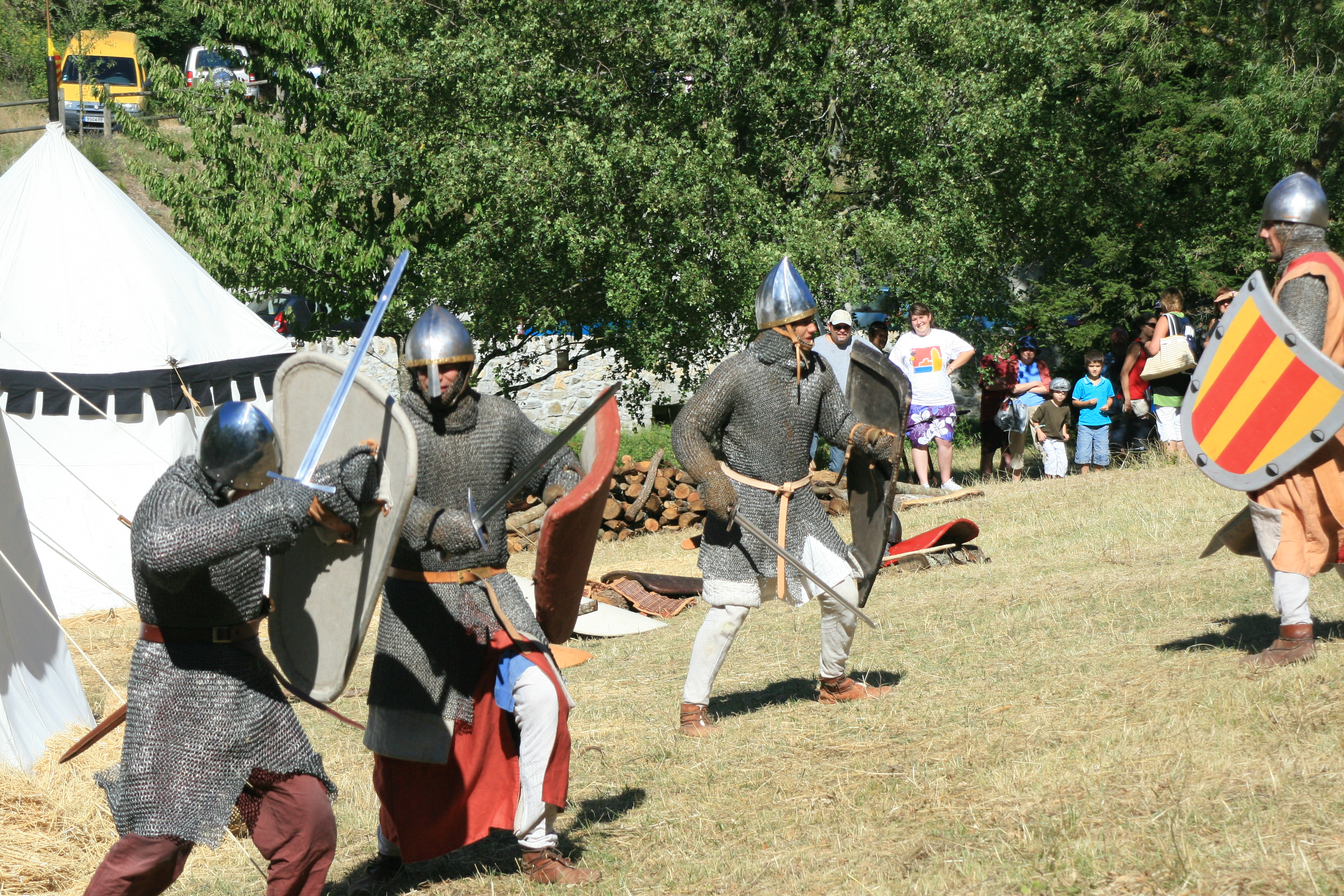 This 6th august 2010, 800 years after the beginning of the siege of Termes castle, in the Corbières, South of France, during the Albigensian Crusade, people of Termes and around organised a remembering-day. At this point, the mens of "Historia Méridionalis" are showing the techniques of medieval warfare.